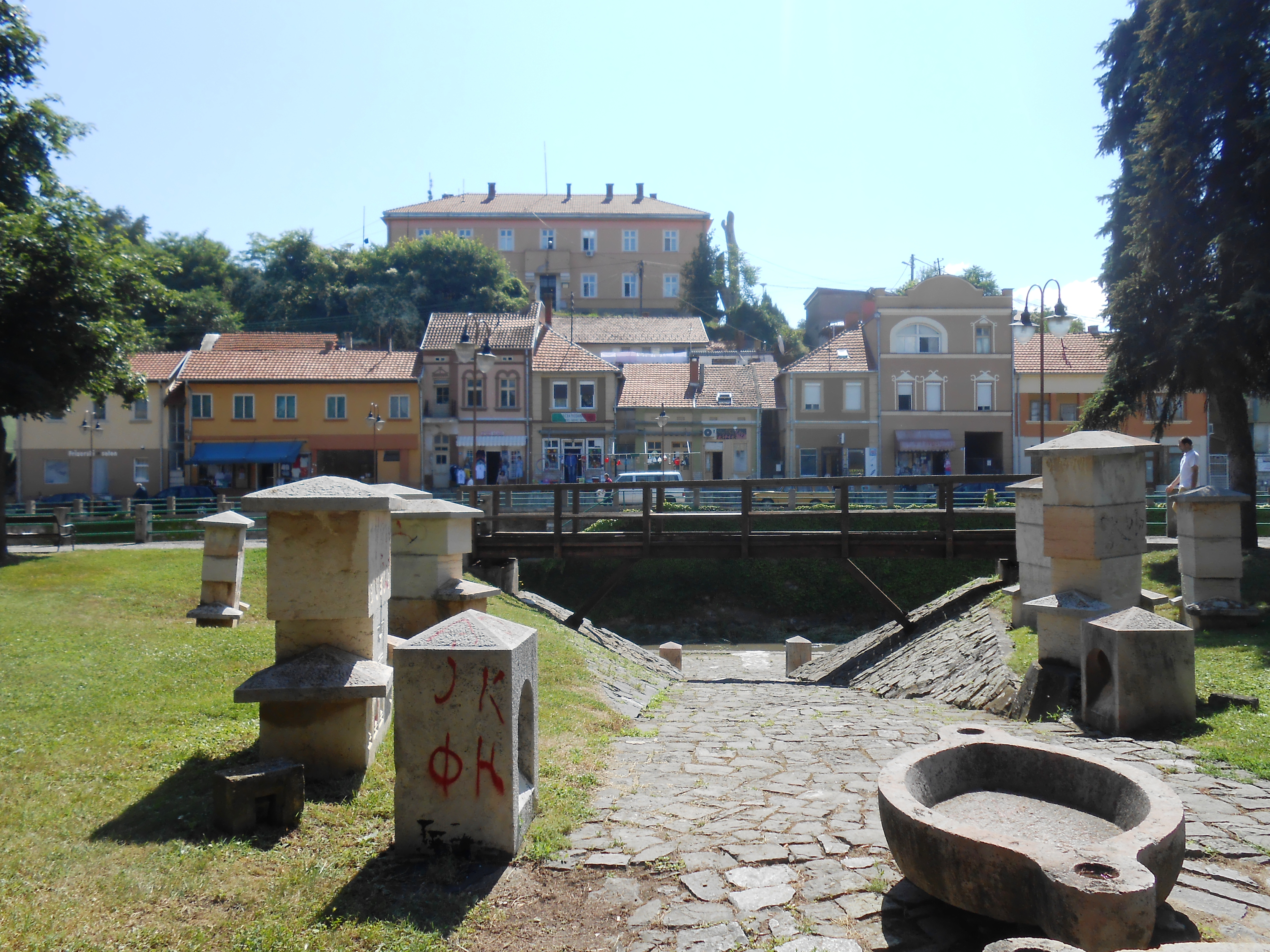 Old downtown in Knjaževac